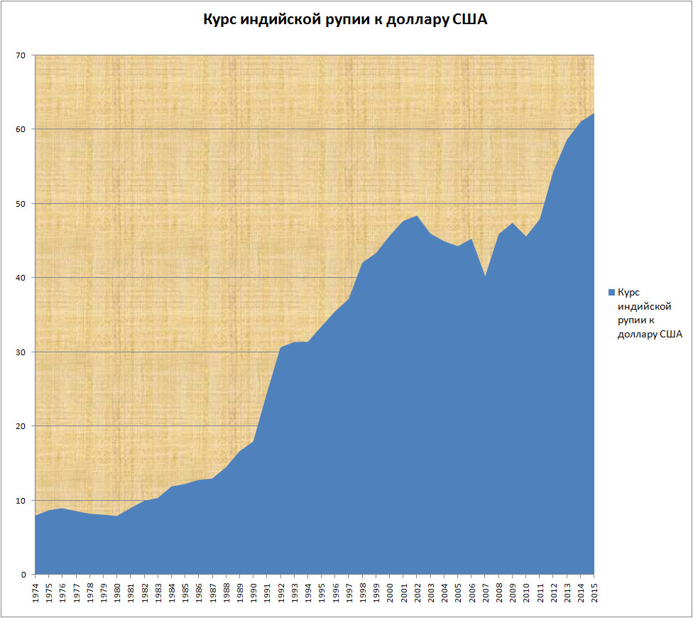 Average yearly indian rupee rate from 1974 till april 2015. Based on information from Reserve Bank of India ( and